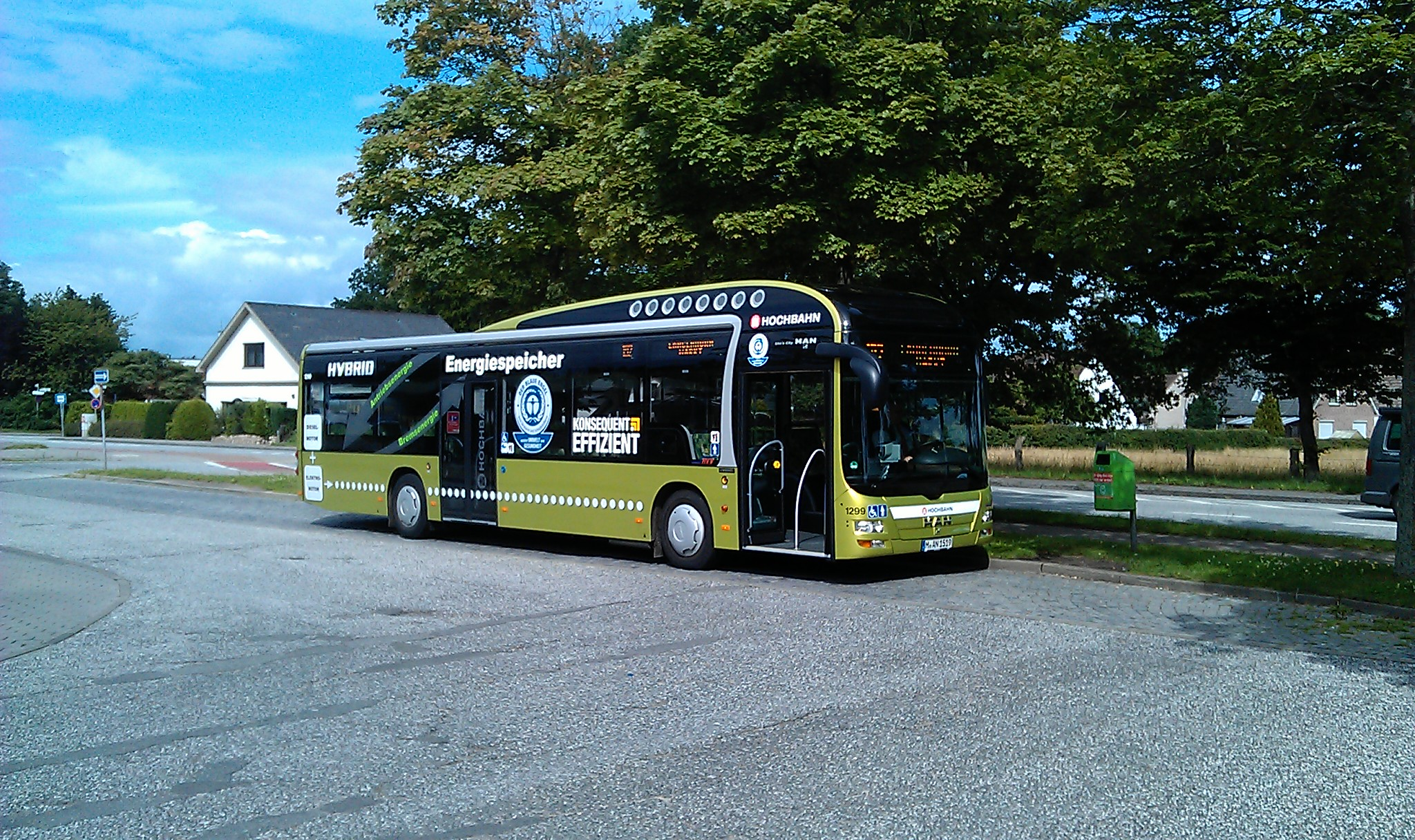 MAN NL 283 Lion's City Hybrid bus (#1299, reg. M-AN 1519) in Hamburg, Germany. Hamburger Hochbahn operator.